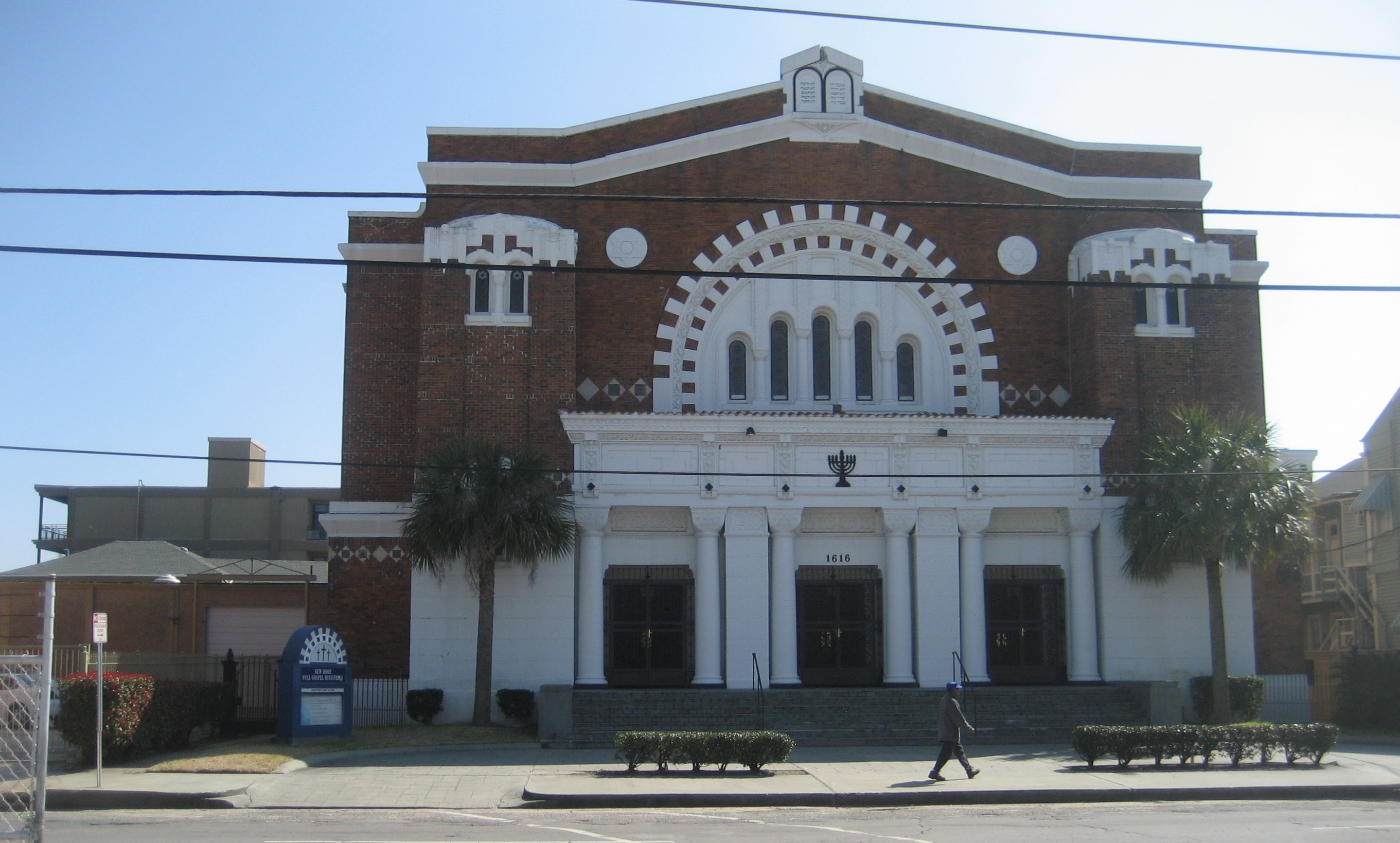 New Orleans. Old Congregation Beth Israel at Carondelet and Euterpe Streets. Front view of Synagogue on Carondelet.